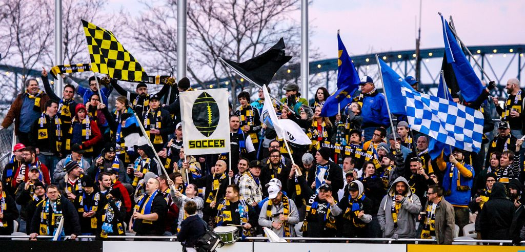 Highmark Stadium & Riverhounds Season Opener